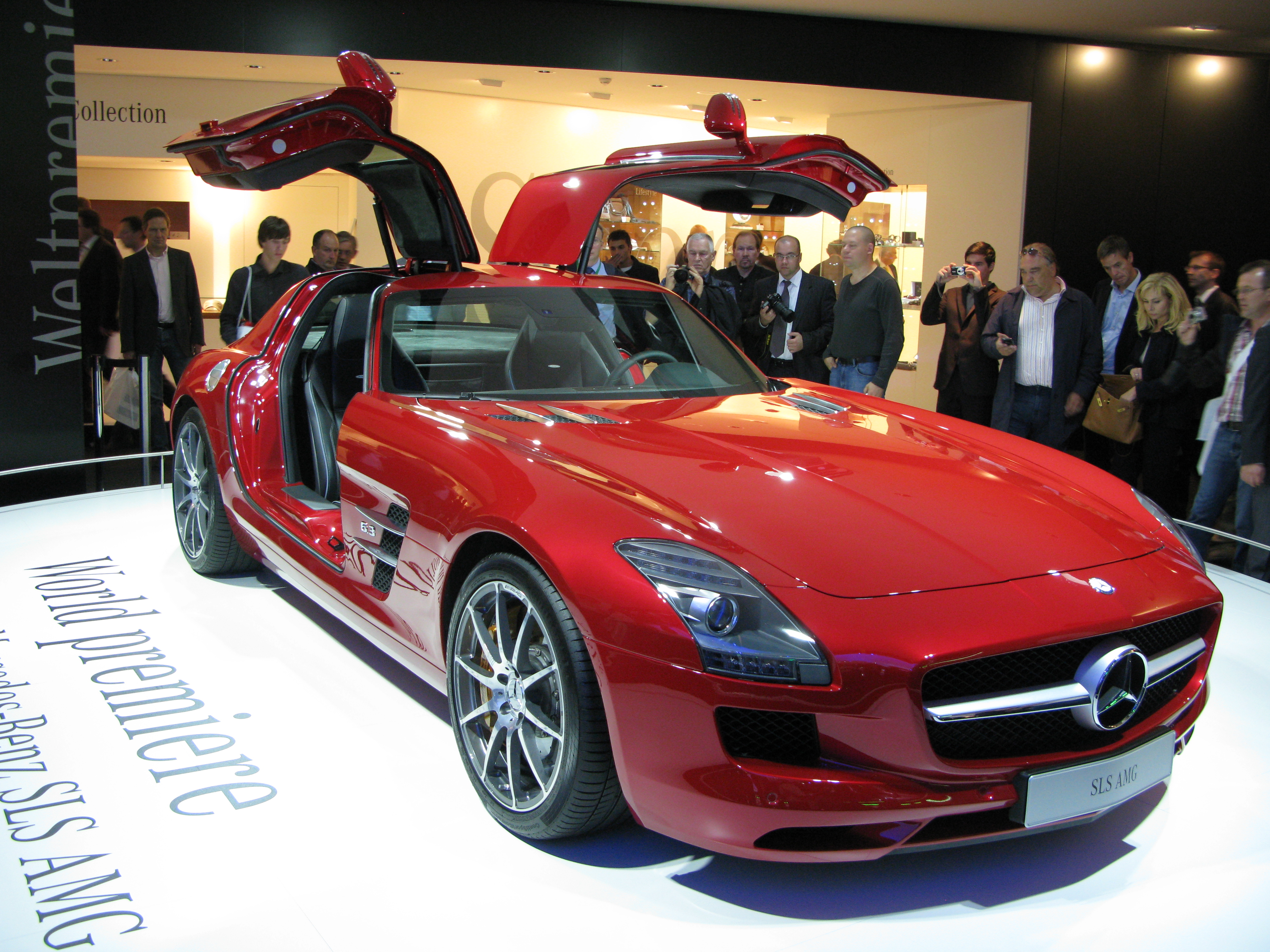 Mercedes SLS AMG, presented at the Internationale Automobil Ausstellung (IAA) at Frankfurt/Main, Germany